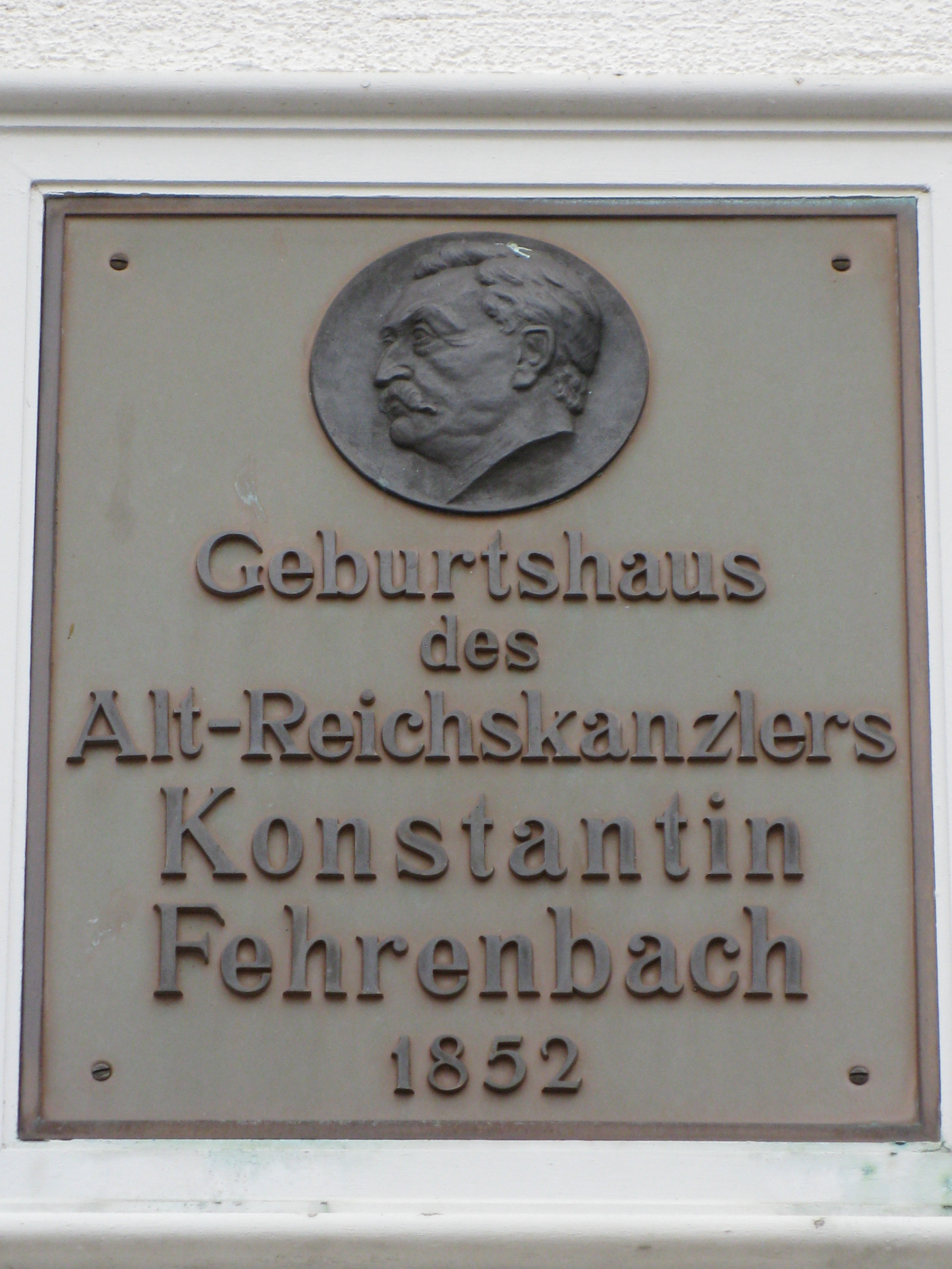 Commemorative tablet on the native house of Constantin Fehrenbach in Wellendingen.